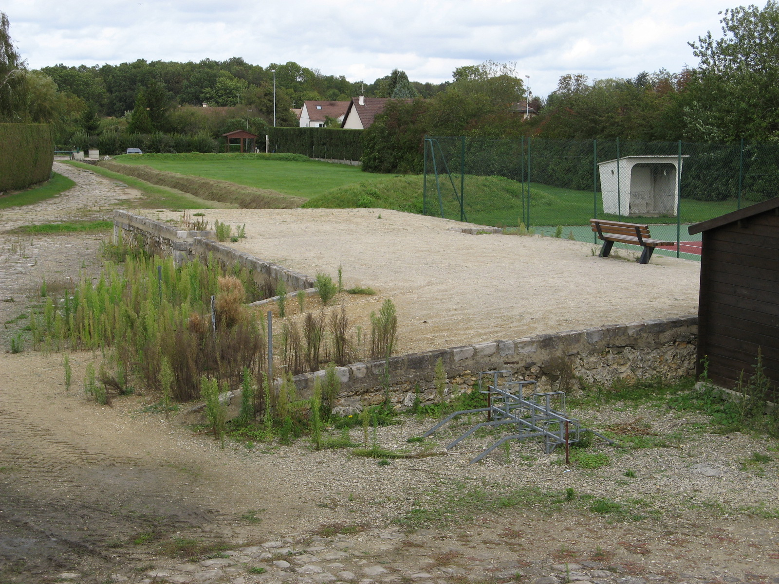 Remains of the former train station in Boullay-les-Troux, Île-de-France, France